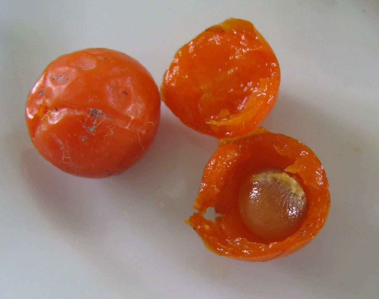 Fruit detail, cultivated plant, Melbourne, Australia